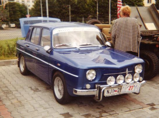 Renault 8